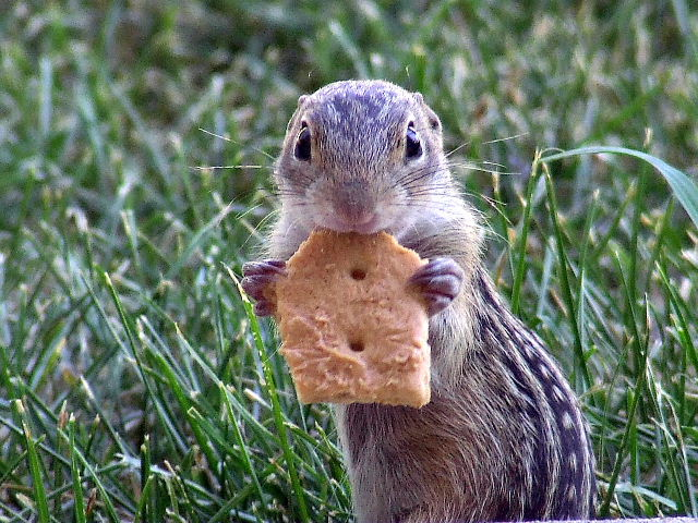 Chomp